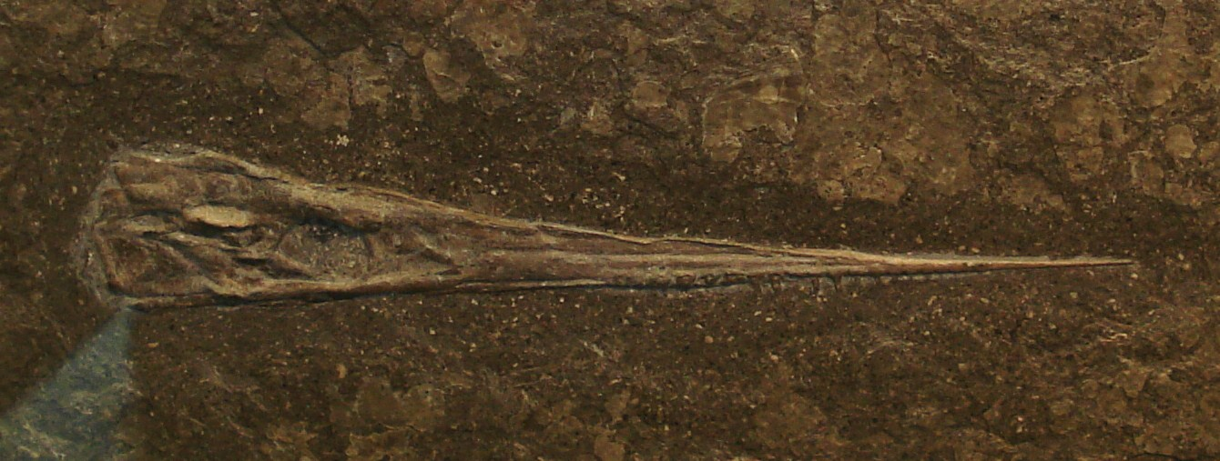 fossil of acidorhynchus brevirostris